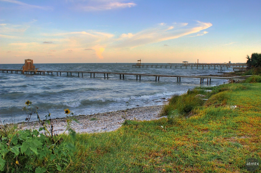 Private Docks, Fulton, TX Along the the coast of Aransas Bay near Fulton there are many private fishing piers and boat docks owned by homeowners and the local resorts.